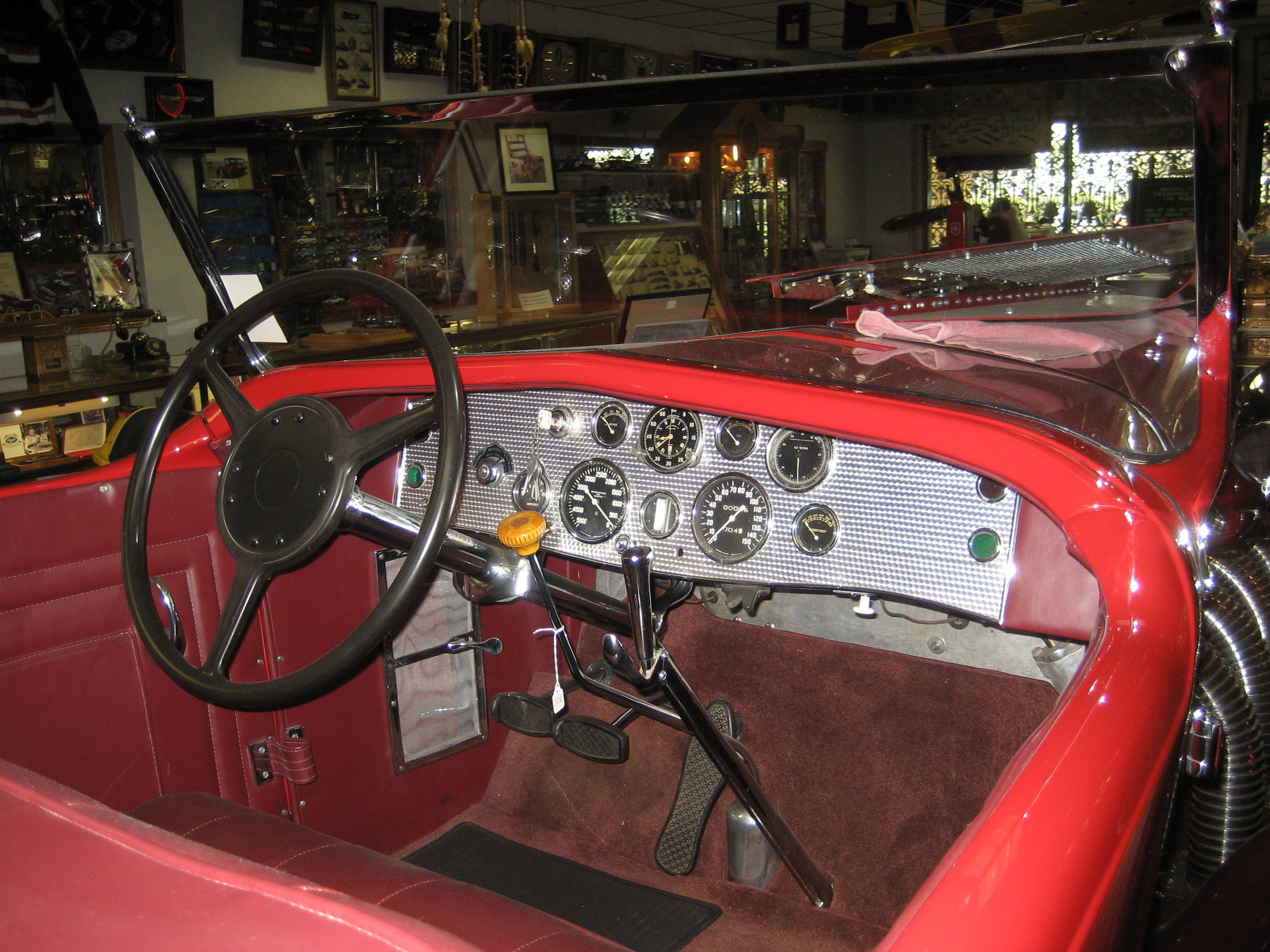 Duesenberg J Double Cowl Phaeton on display at Tallahassee Automobile Museum. View showing dashboard & steering wheel.